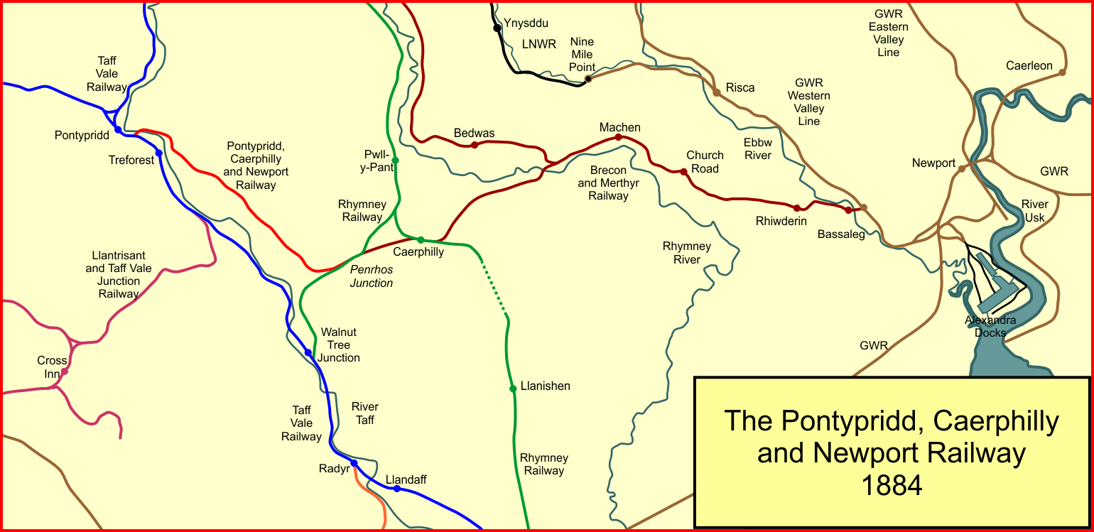 System map of the Pontypridd, Caerphilly and Newport Railway in context as at 1884